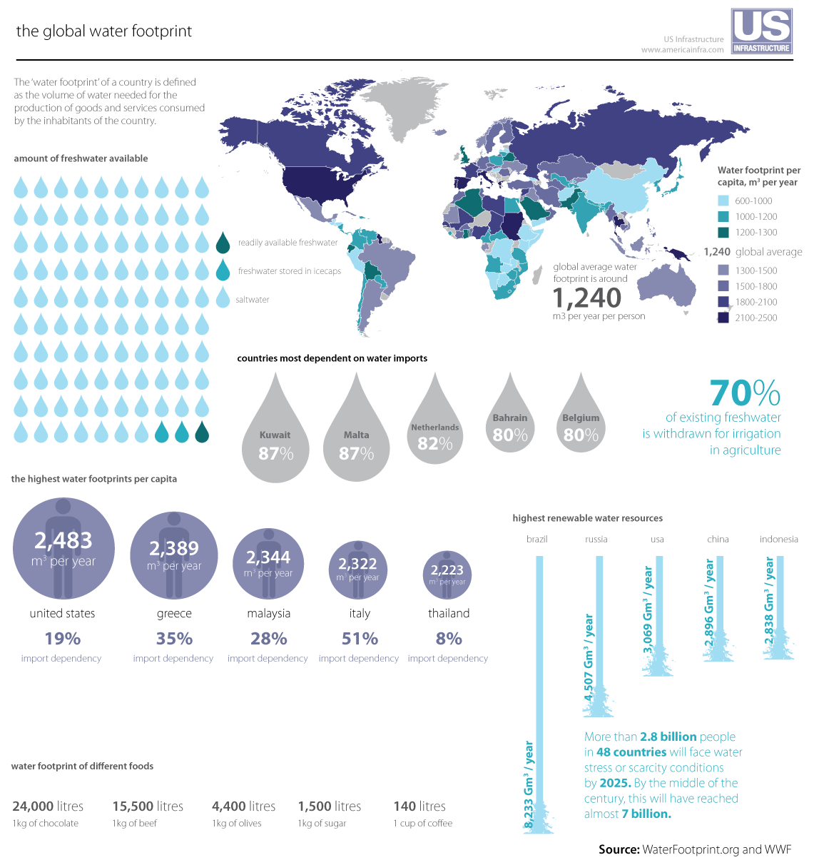 The 'water footprint' of a country is defined as the volume of water needed for the production of goods and services consumed by the inhabitants of the country.